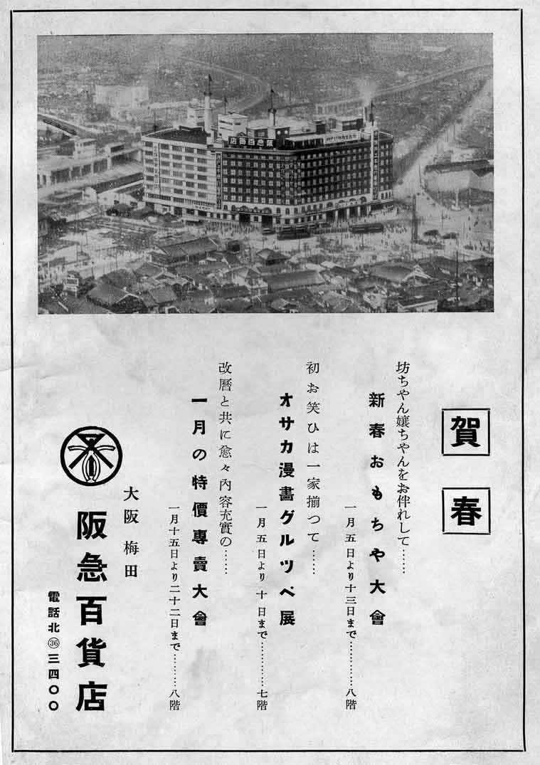 Advertisement of Hankyu